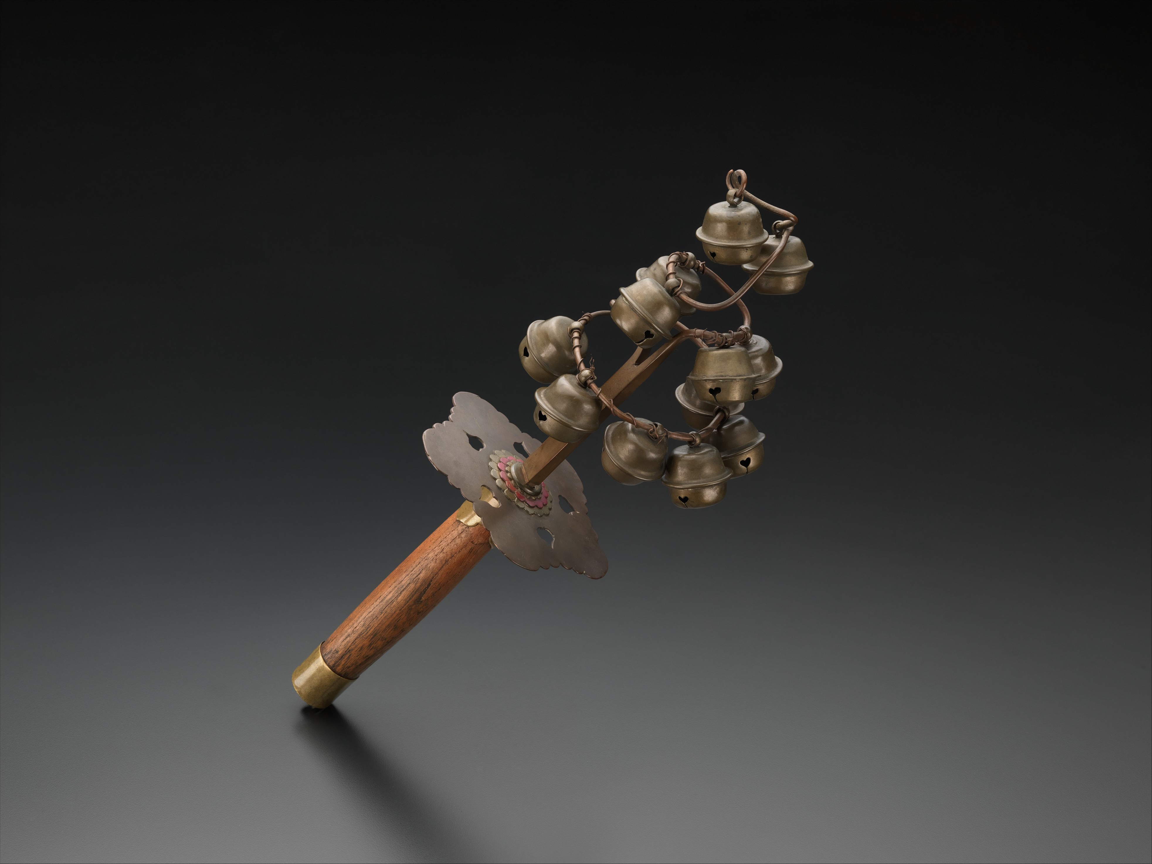 Japanese; Suzu; Idiophone-Shaken-crotal bell